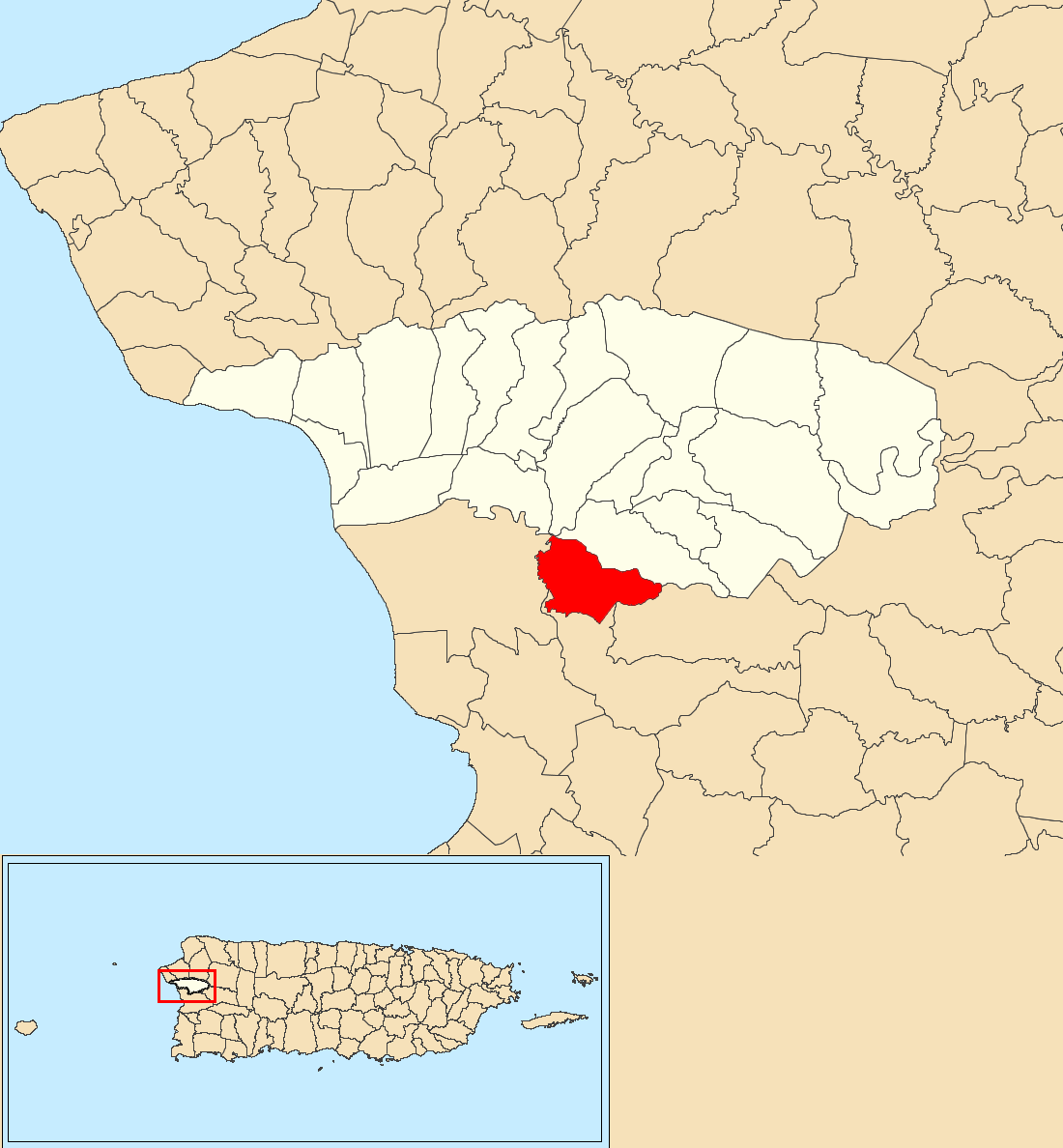 Río Cañas, Añasco, Puerto Rico locator map